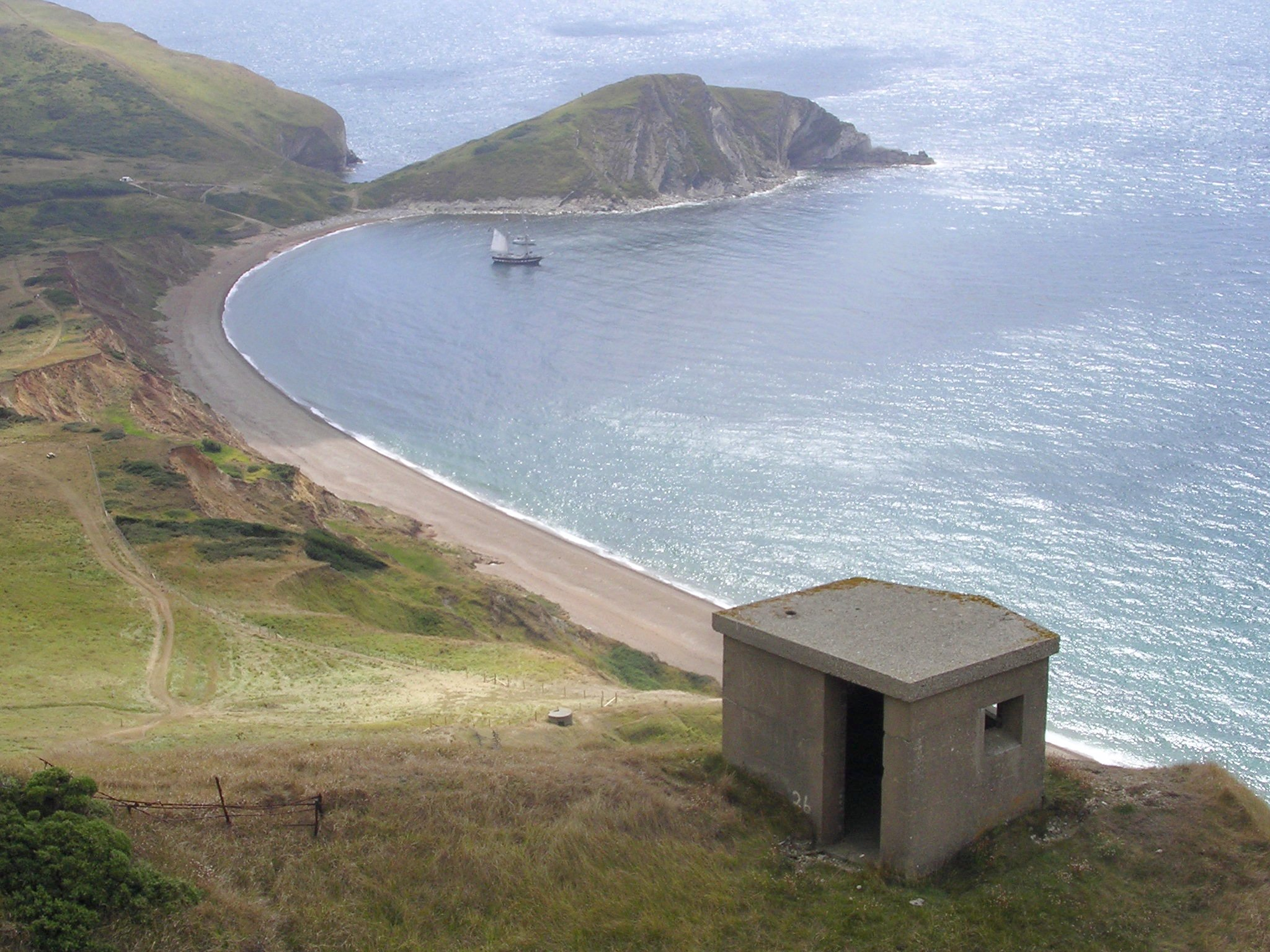 Looking down into Worbarrow Bay from Flower's Barrow